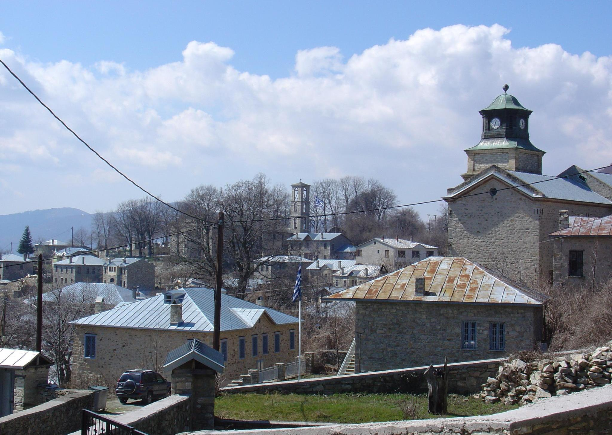 View of the Nymfaio (Νυμφαίο) village, Florina, Greece.